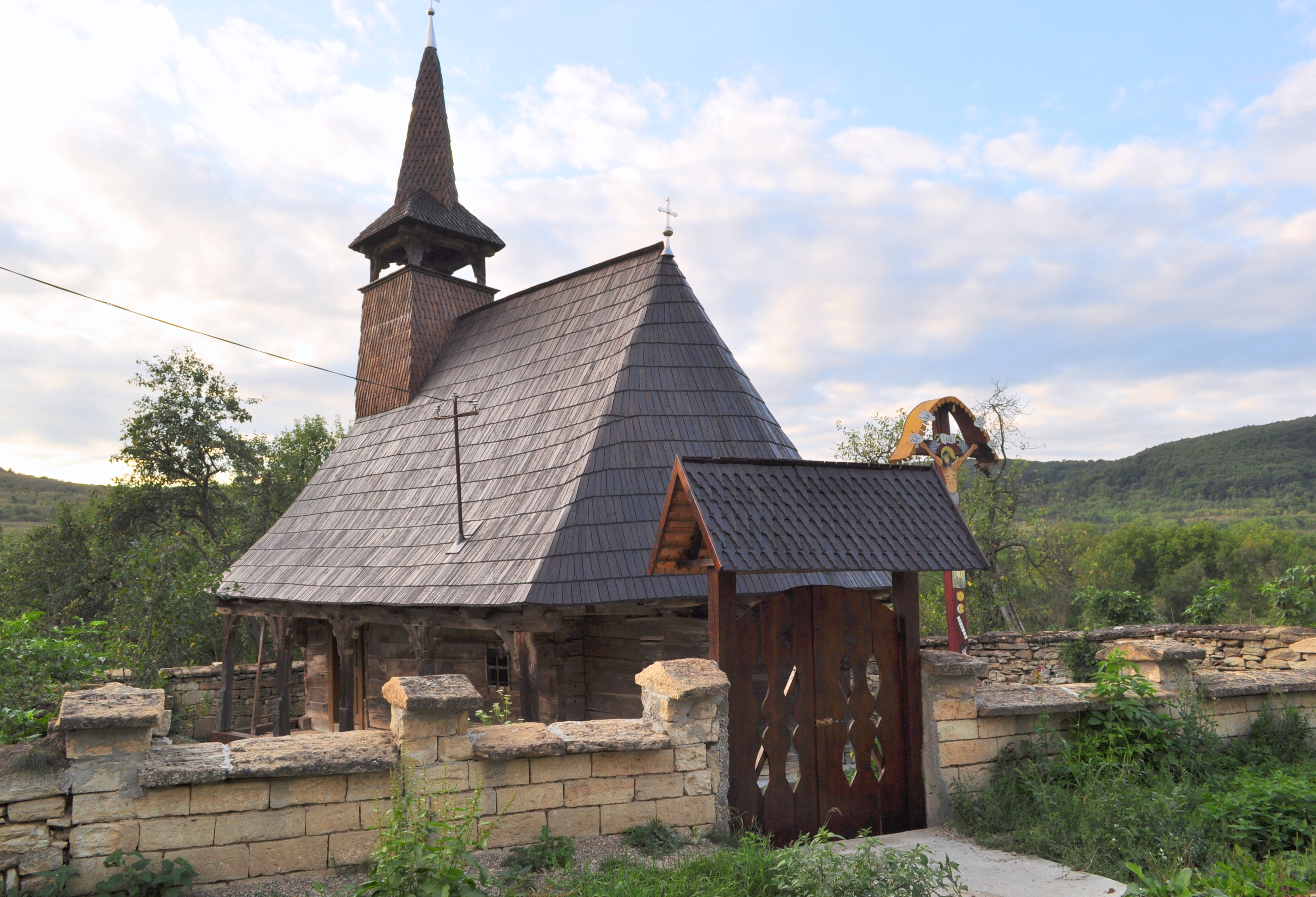 Wooden church in Chidea, Cluj countyRomână: Biserica de lemn din Chidea, județul Cluj